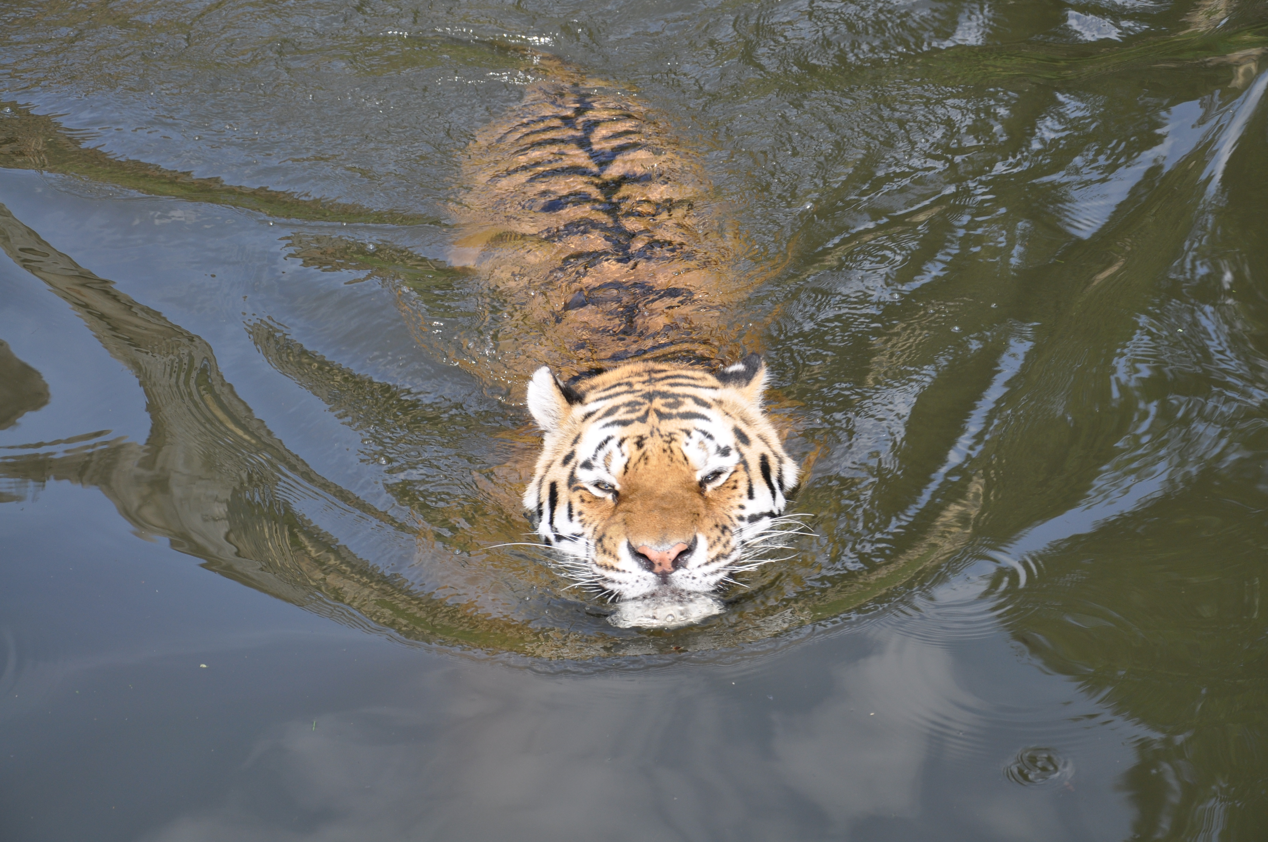 A Sibirian Tiger (panthera tigris altaica) from the Wuppertal Zoo is swimming.